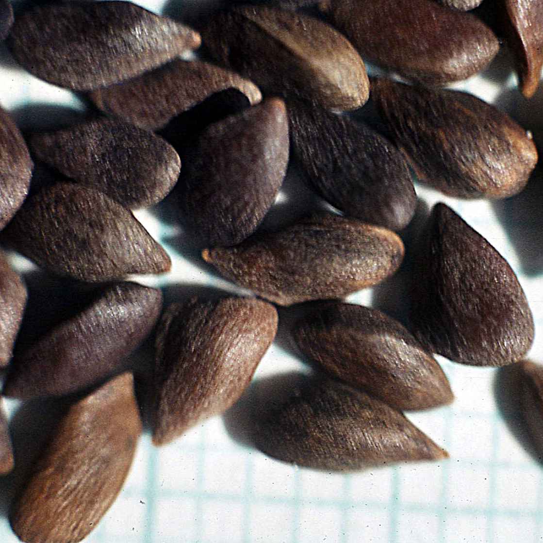 Unwinged seeds of Picea pungens